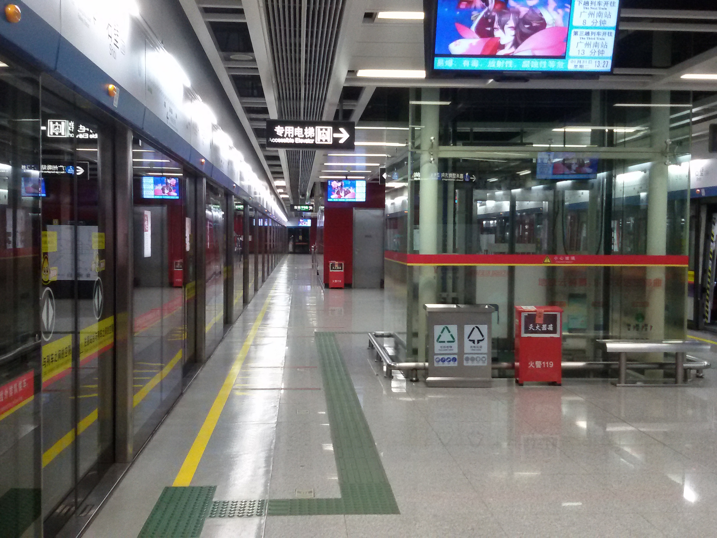 Station Platform for Shibi Station on Line 2 in Guangzhou Metro.